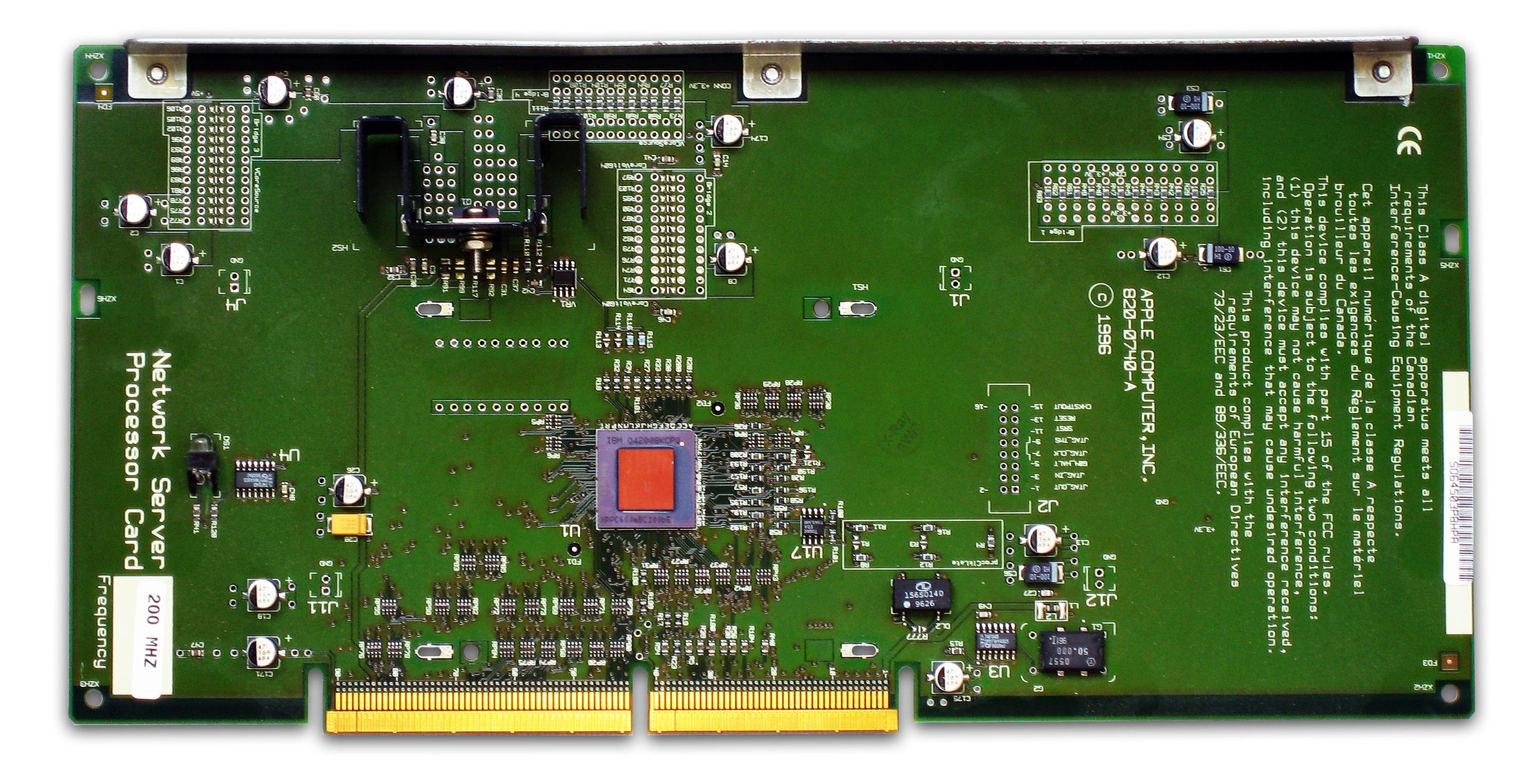 The CPU board of an Apple Network Server 700/200